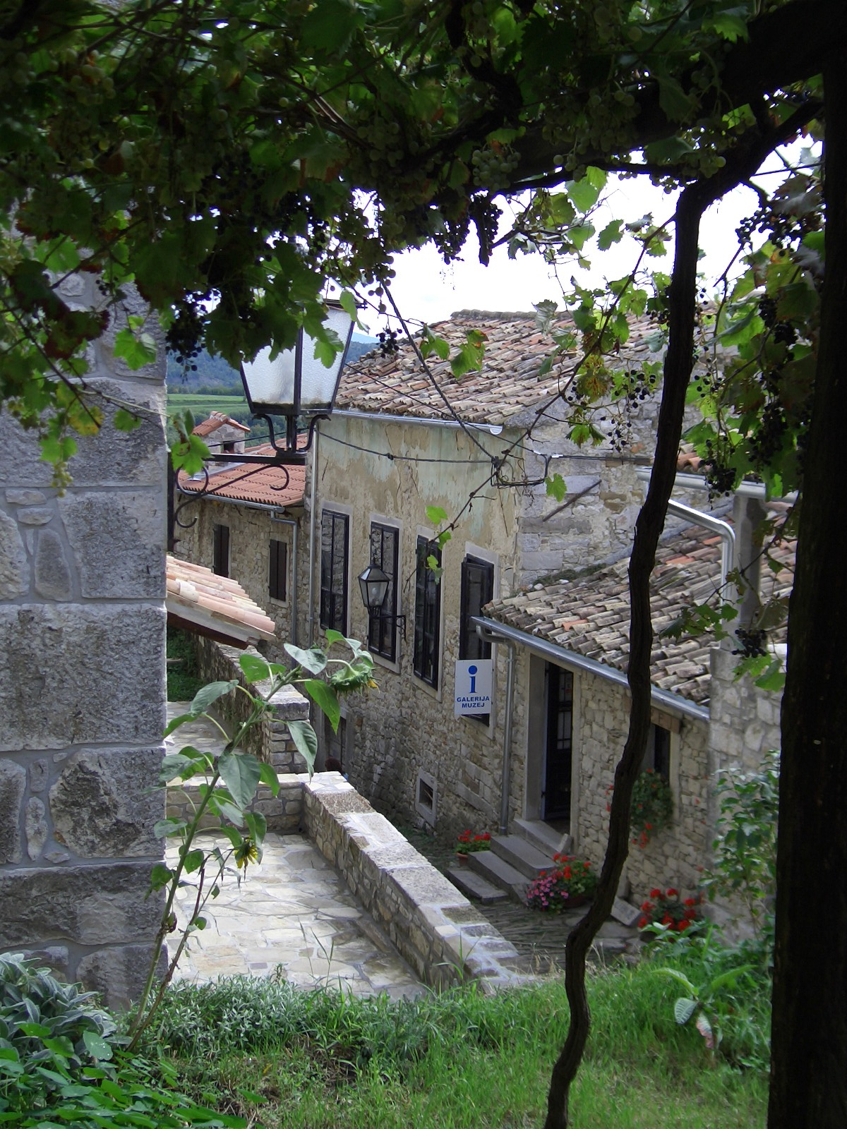 Hum (Croatia)